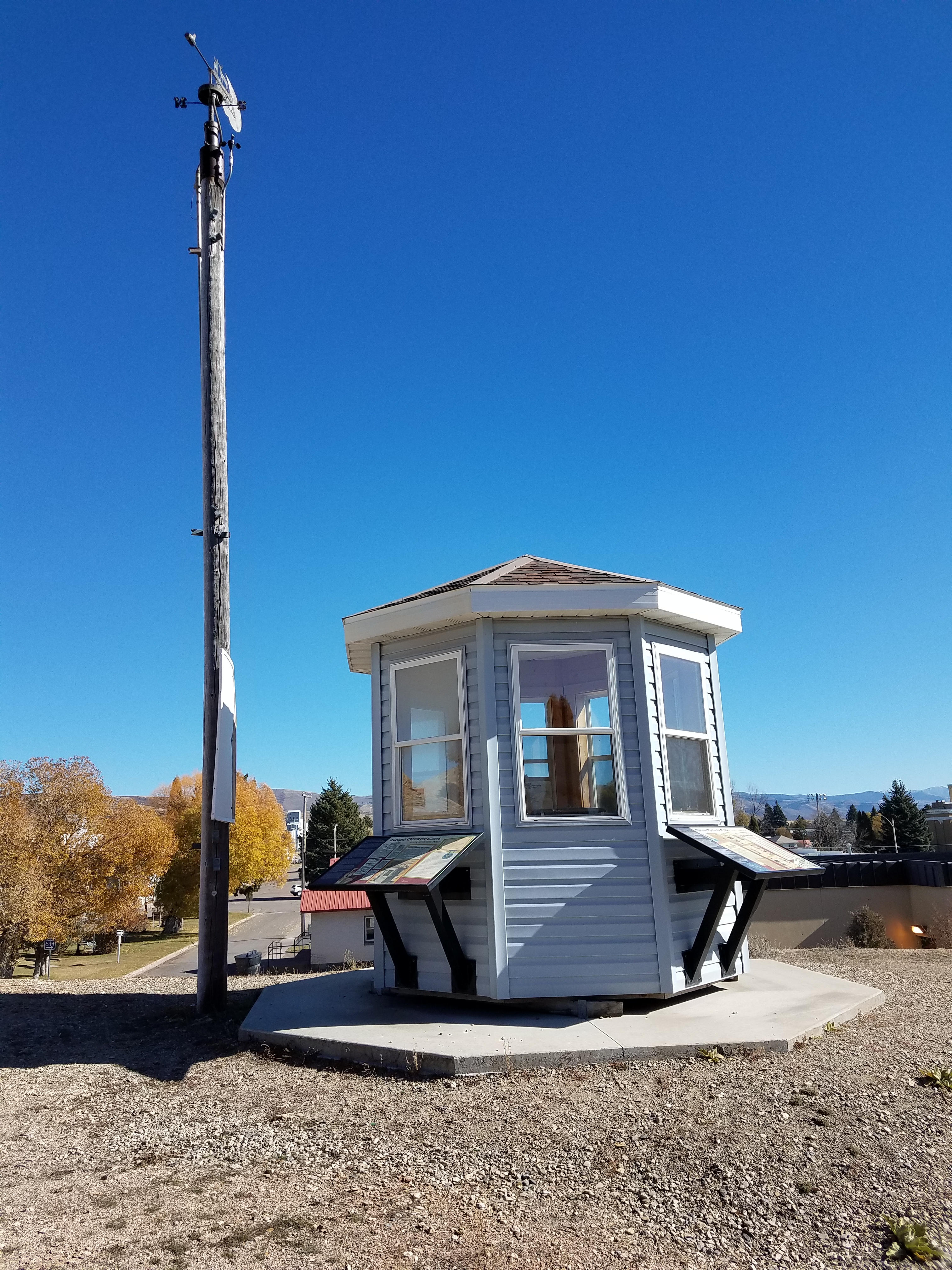 Photograph of Ground Observer Corps observation booth